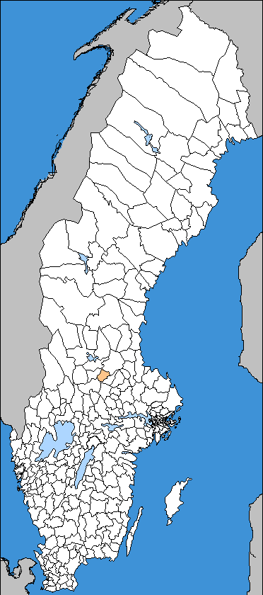 Borlänge Municipality in Sweden